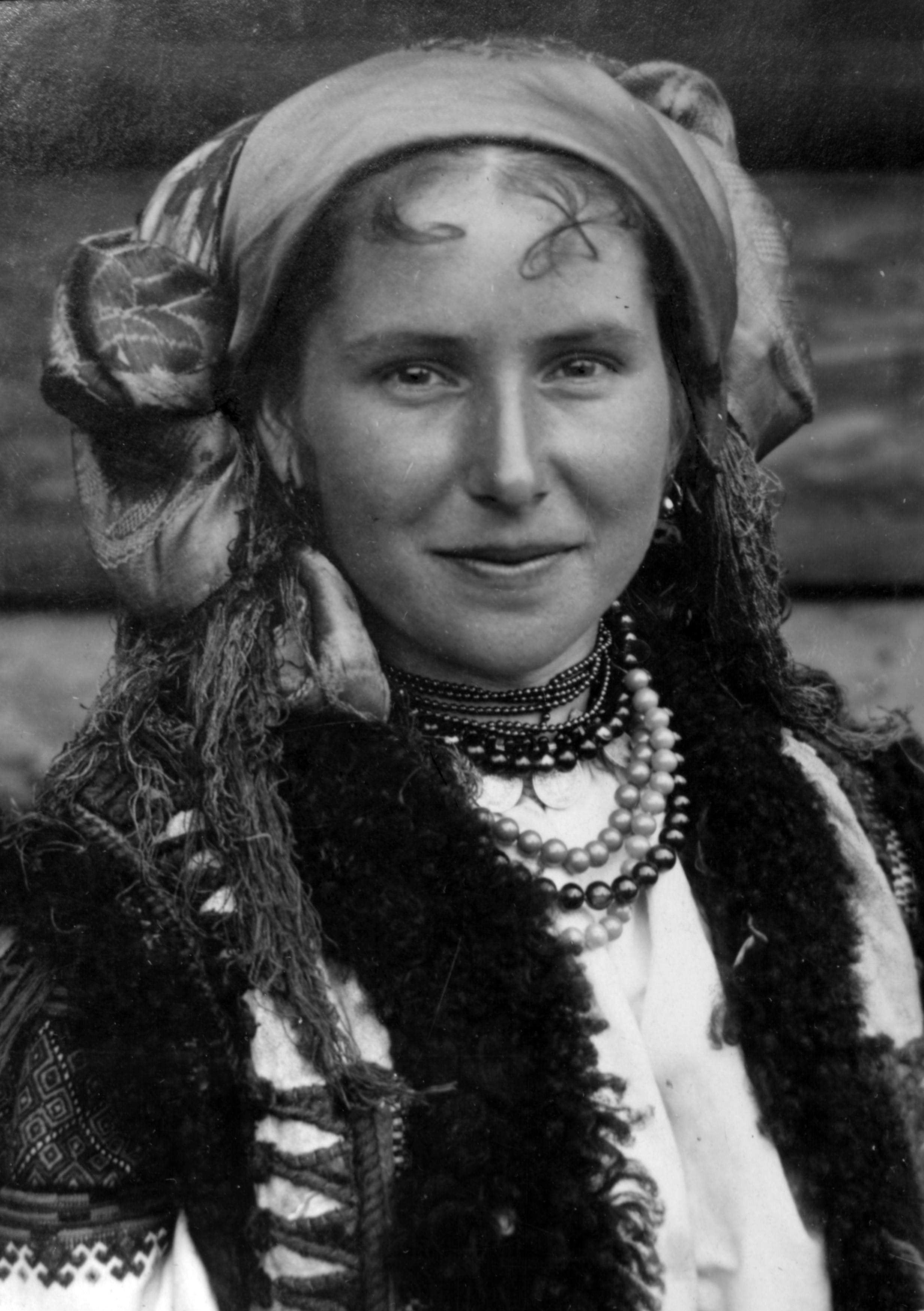 Hutsuls (Ukrainian highlanders of Eastern Carpathian mountains) from Verkhovyna (former Zhabye) district, southern part of Ivano-Frankivsk oblast (province), western Ukraine. Antique prewar photo from Polish archives, Early 1930-s.